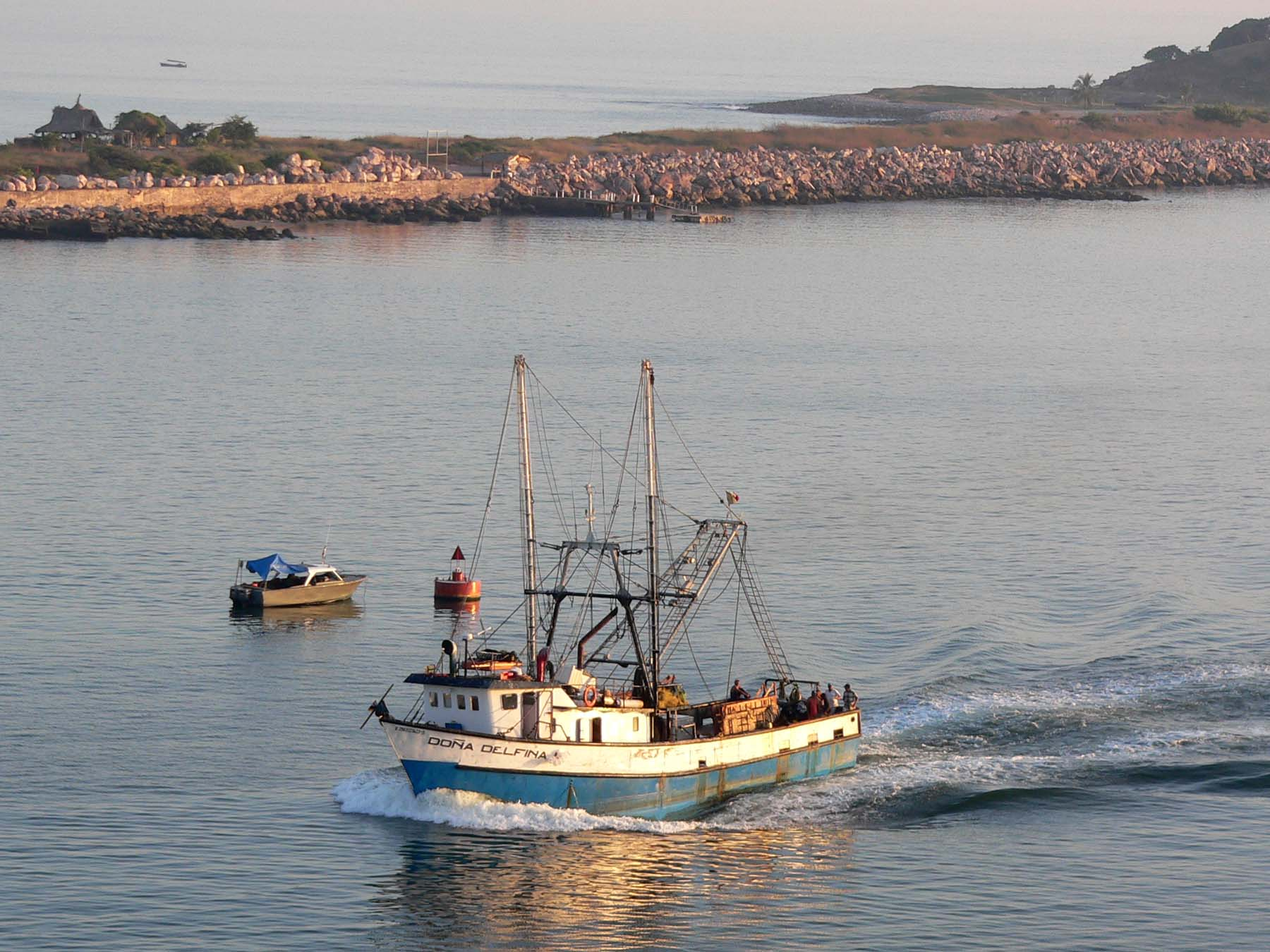 Photo of fishing boat Dona Delfina at Mazatlan